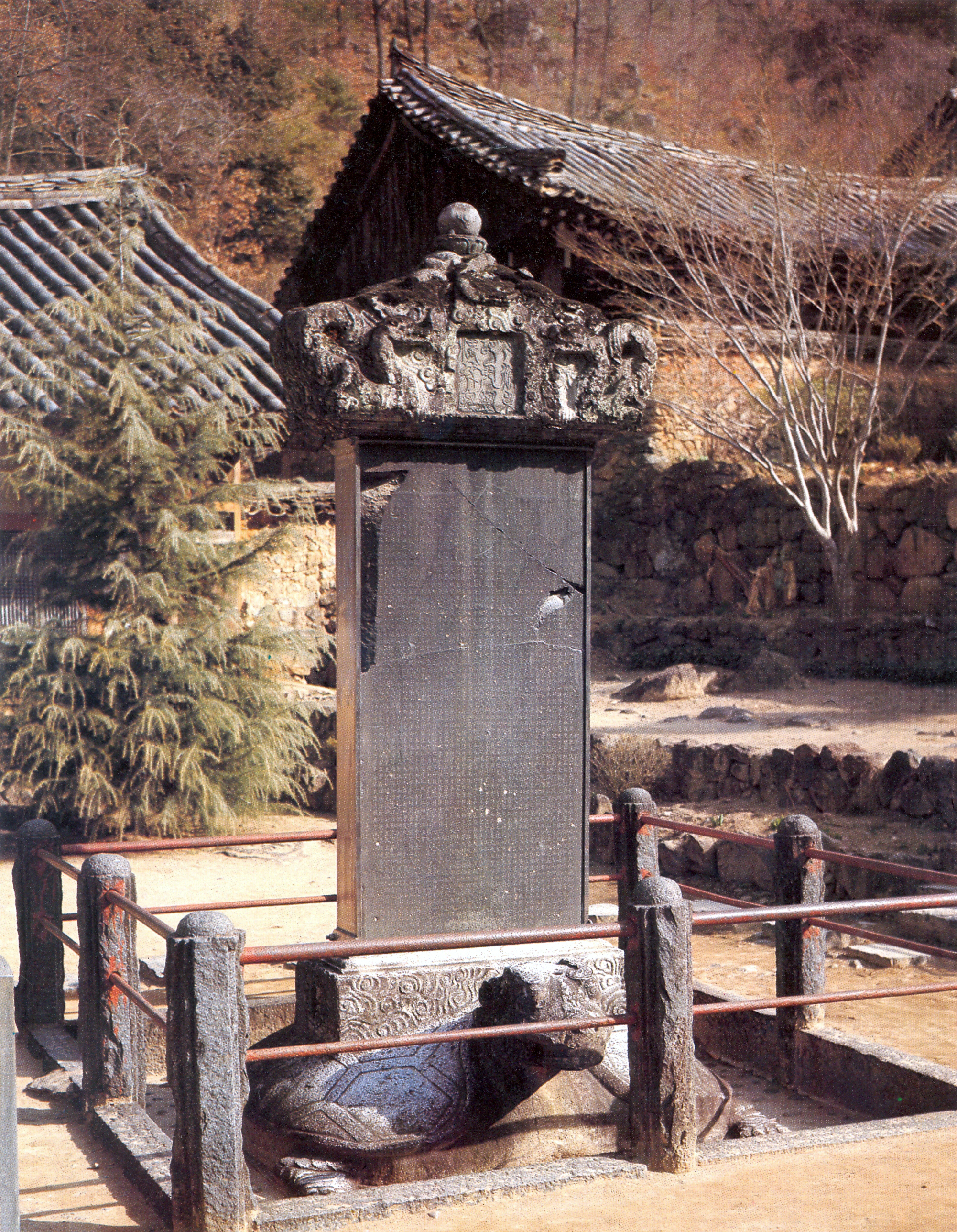 Stele of master Jingam at Ssanggyesa temple site, Hadong, Korea